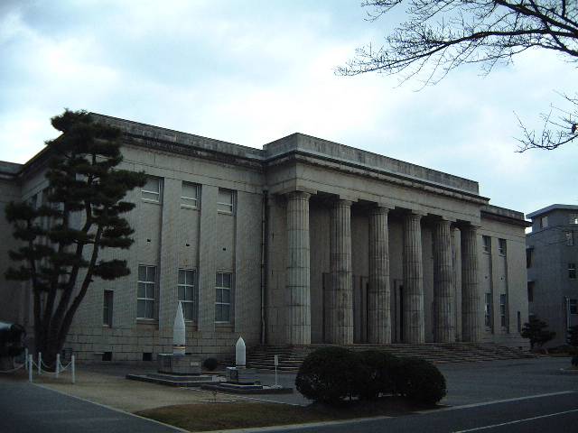 Former Japanese Naval Academy (Present Japan maritime self-defence force first maritime service school) Educational reference pavilion "kyouikusankoukan" Edajima city Japan DATE:5/DEC/2000